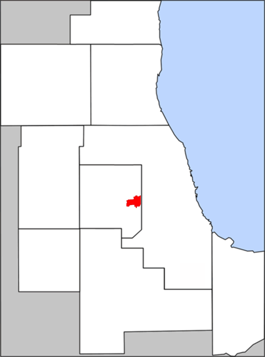 Map showing location of Oak Brook, Illinois, within Chicago metropolitan area.